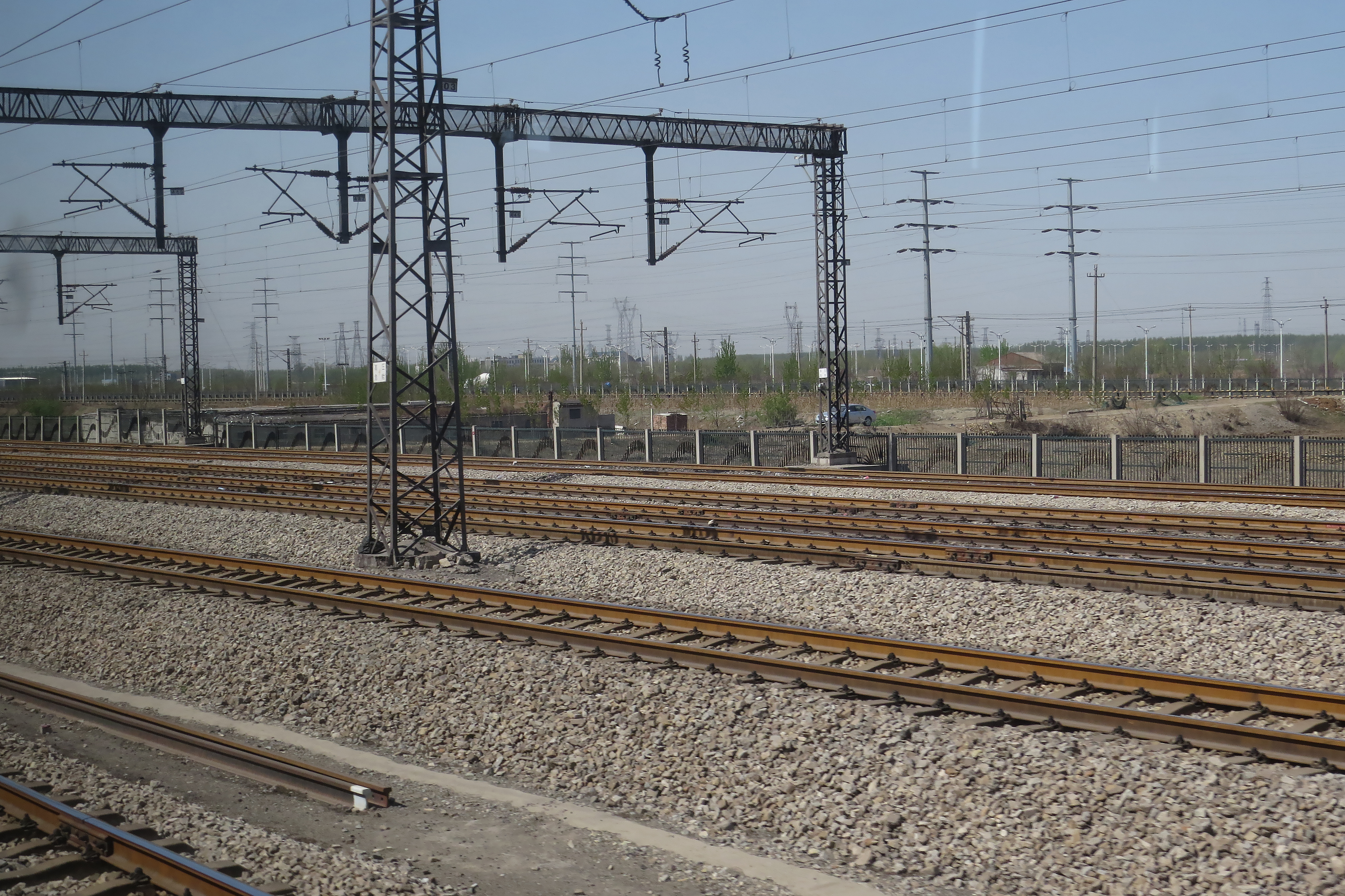 This is the bifurcation point of old and new railways.